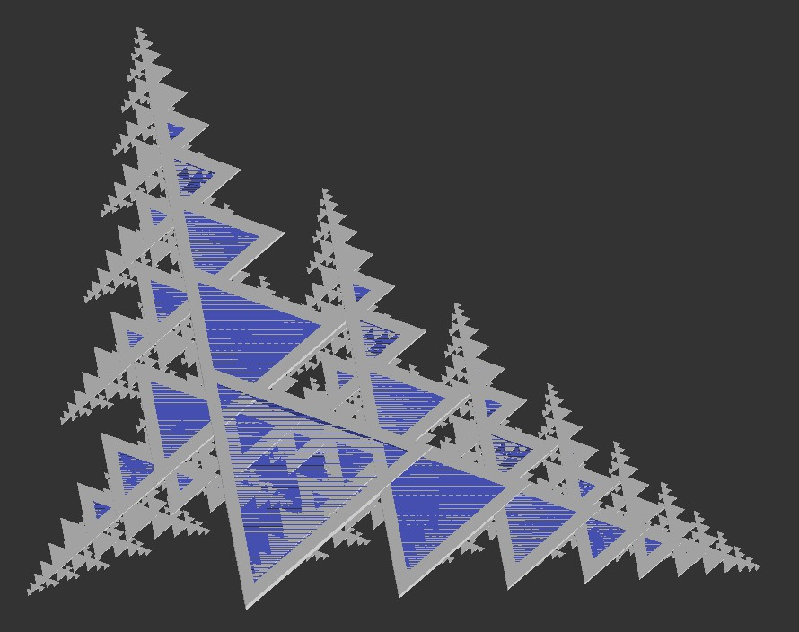 A 120 degrees 2 forked IFS which bears a striking resemblance to ice